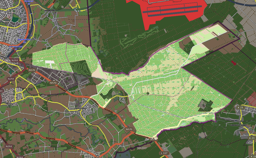 This map may be incomplete, and may contain errors. Don't rely solely on it for navigation.